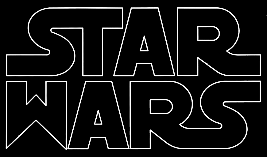 the original Star Wars logo designed by Suzy Rice for Lucasfilm in 1976, later modified for on-screen use